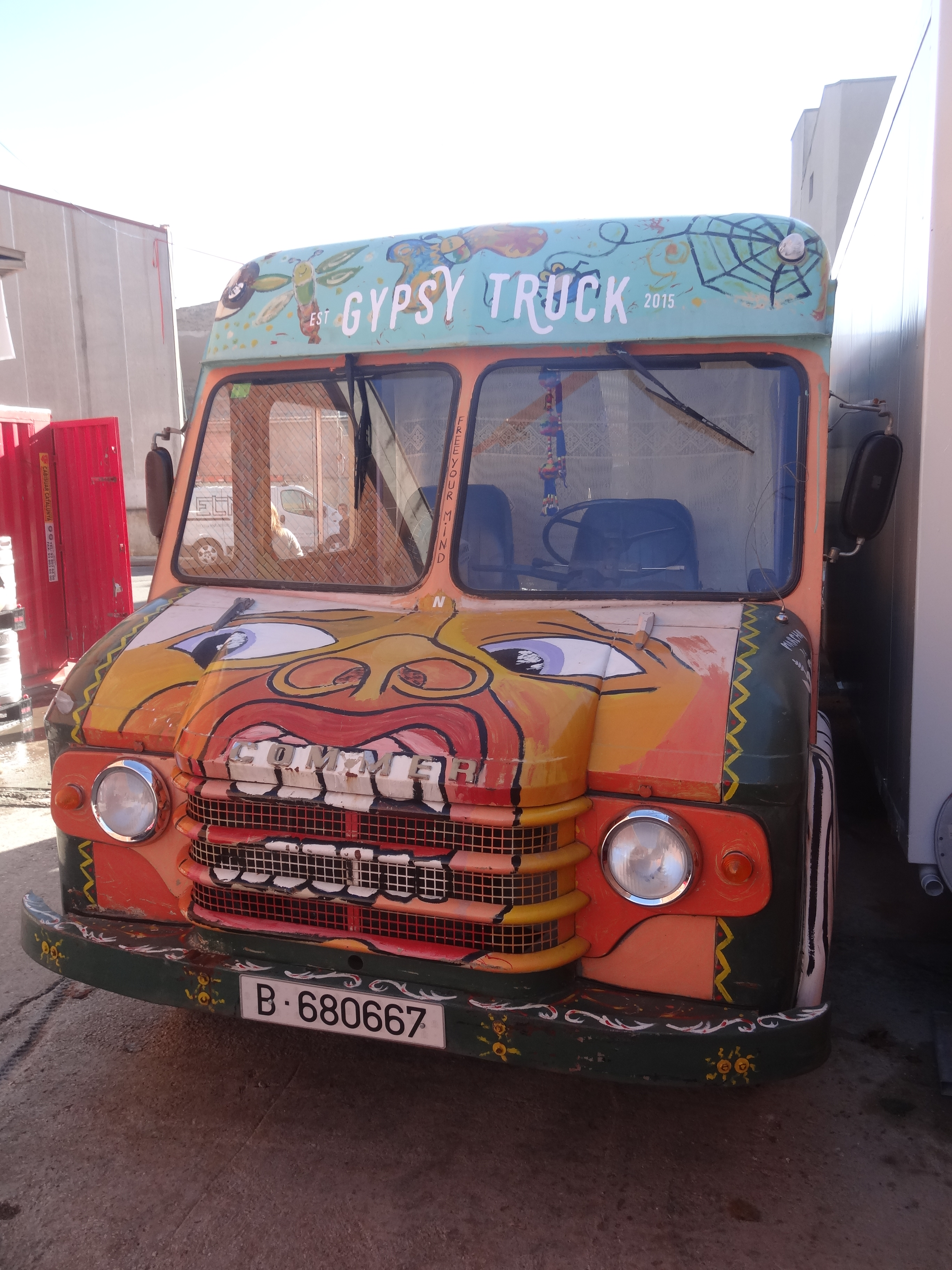 Food trucks at the RecStores shopping event, november 2015, in Igualada.